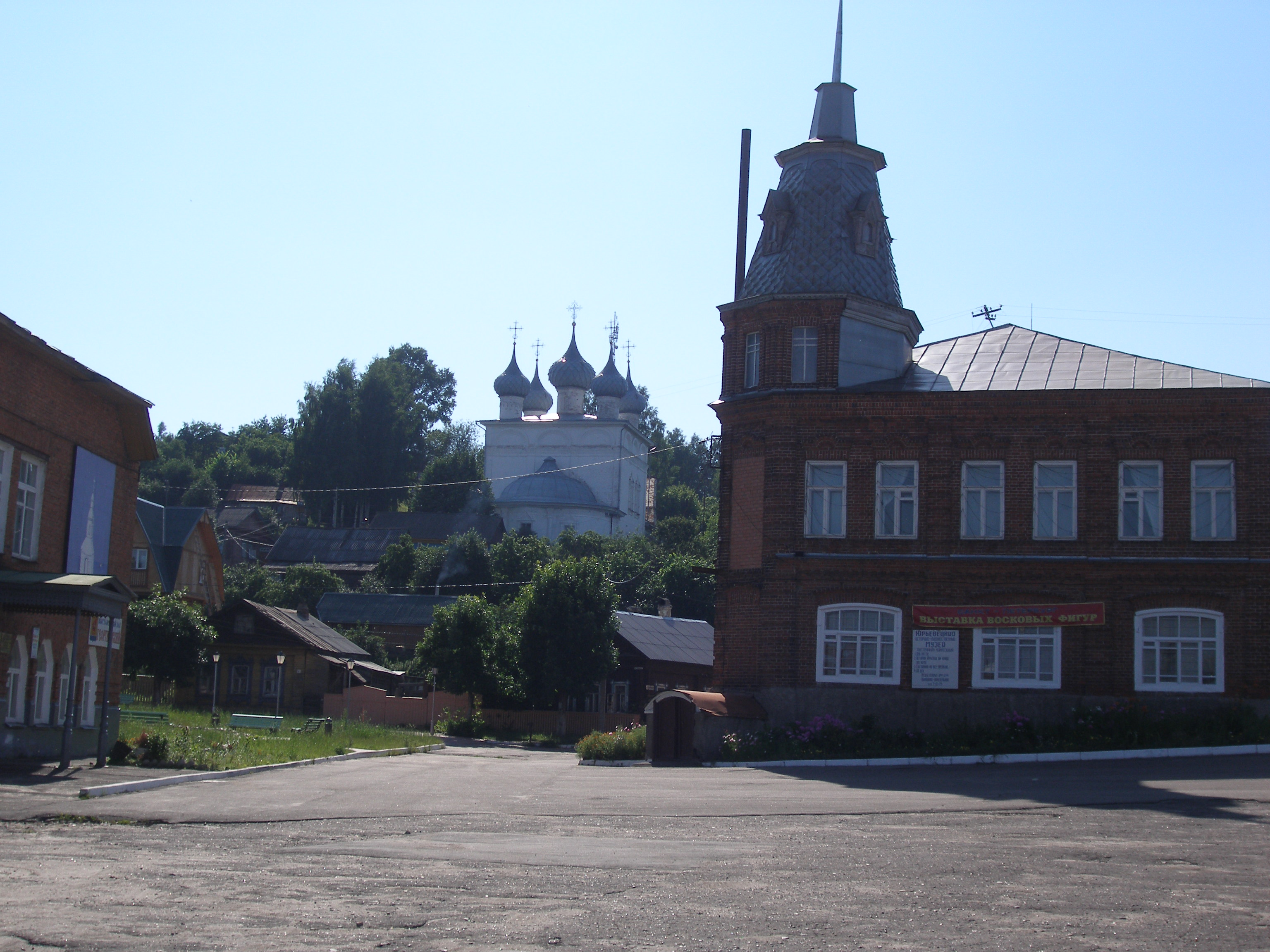 Urevec, Ivanovskaya oblast